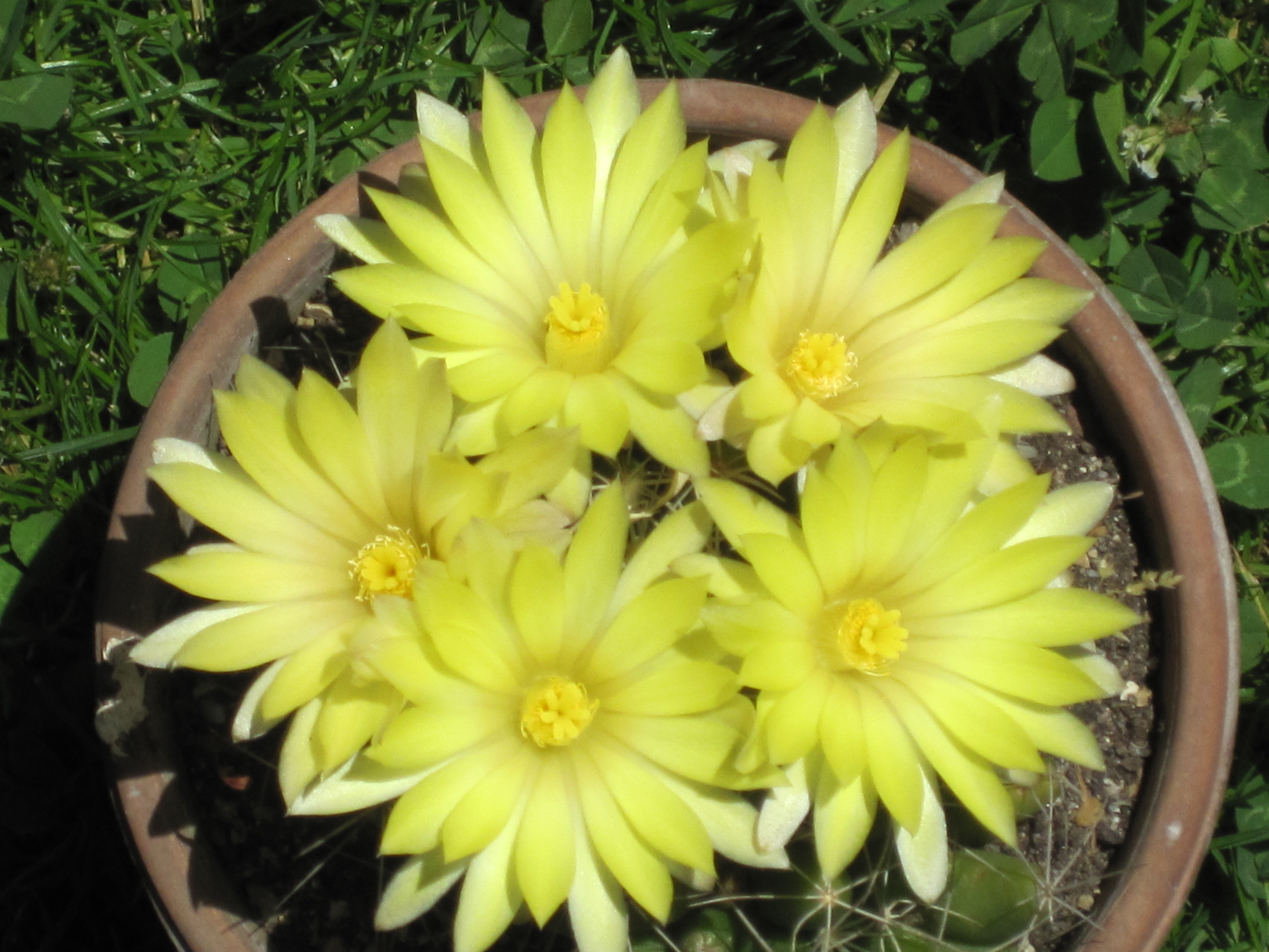 Flowers of mammillaria longimamma